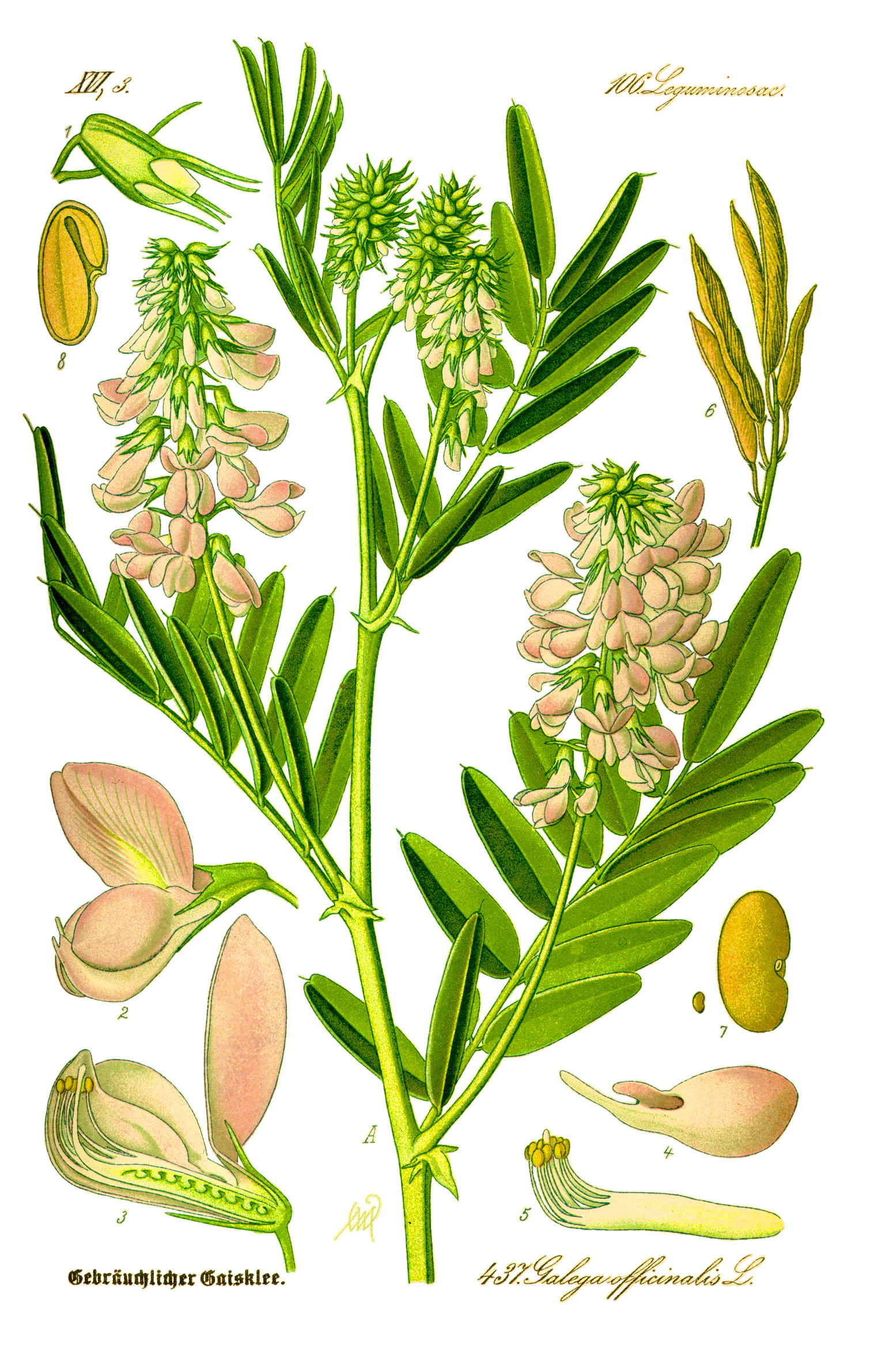 Name Galega officinalis ;Family:Fabaceae Original book source: Prof. Dr. Otto Wilhelm Thomé Flora von Deutschland, Österreich und der Schweiz 1885, Gera, Germany Permission granted to use under GFDL by Kurt Stueber